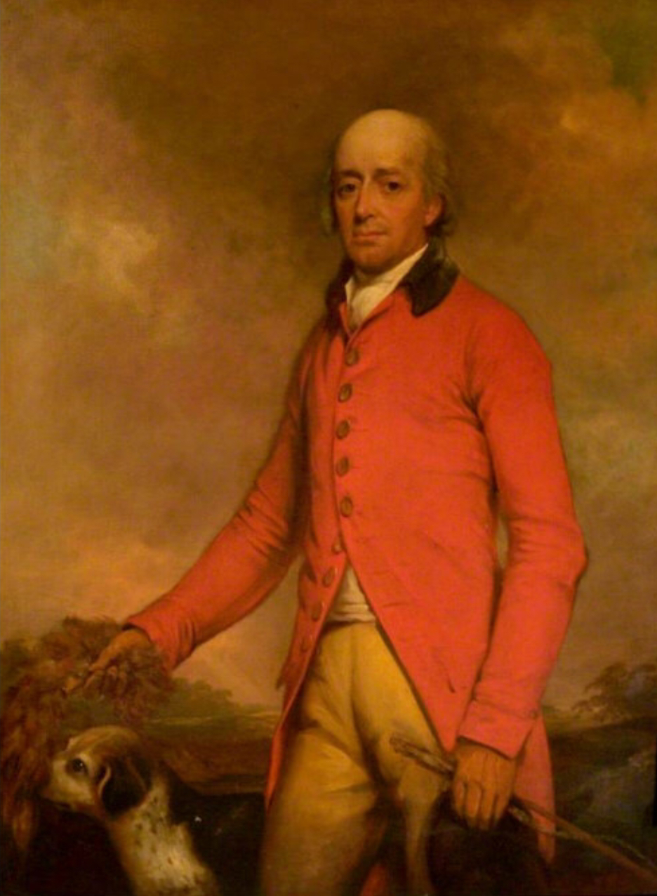 Sir John Corbet with his famous hound, Trojan